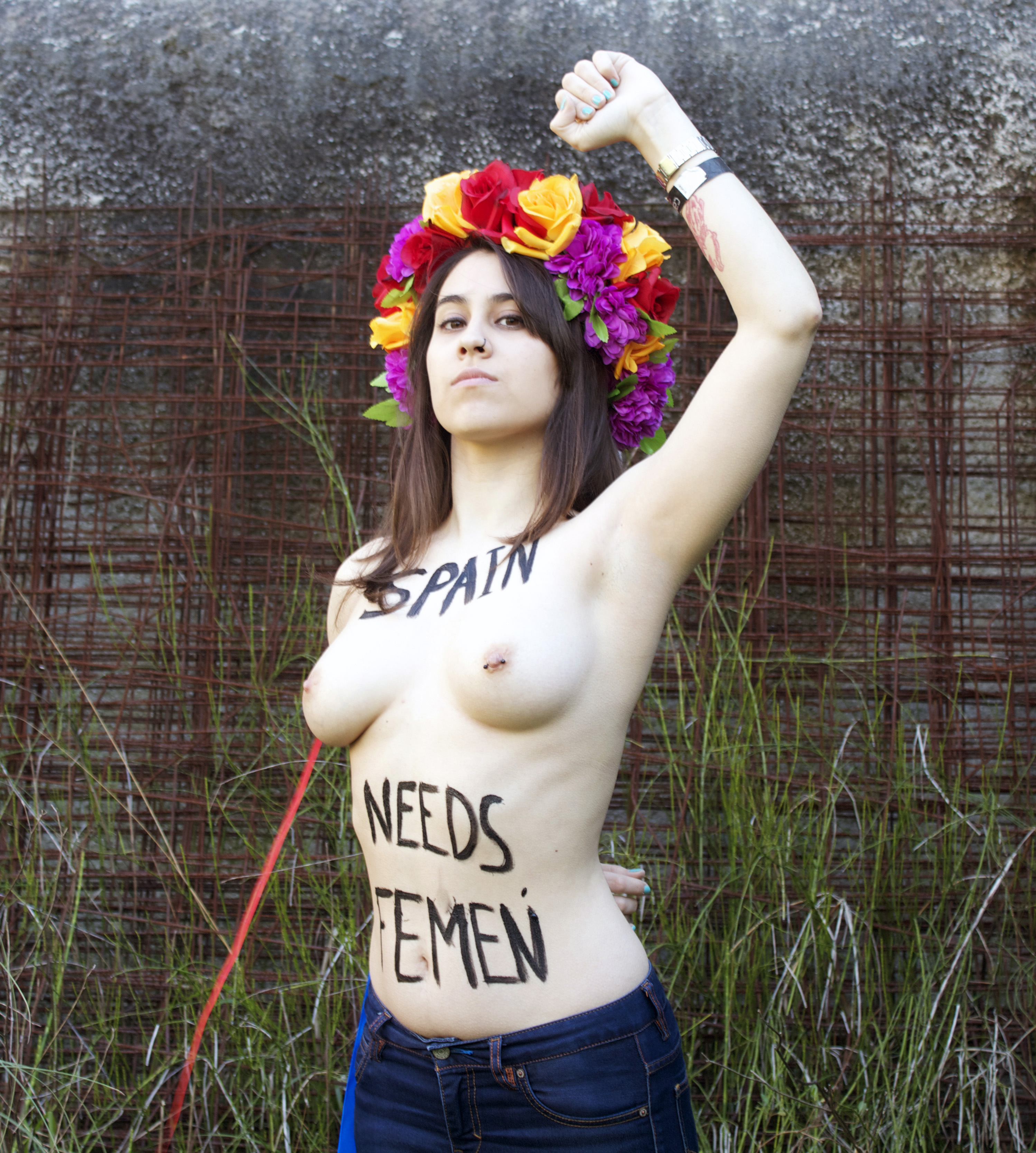 Lara Alcázar from femen spain